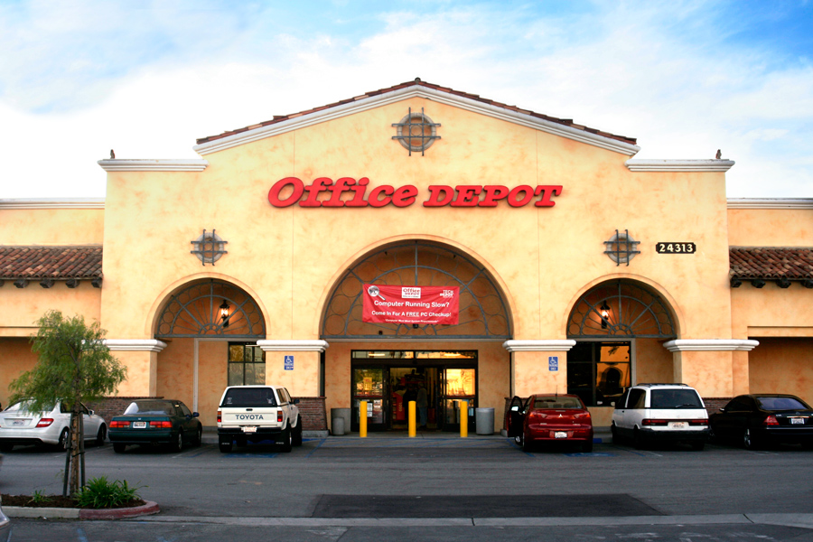 Office Depot Store #916 in Torrance, Calif.